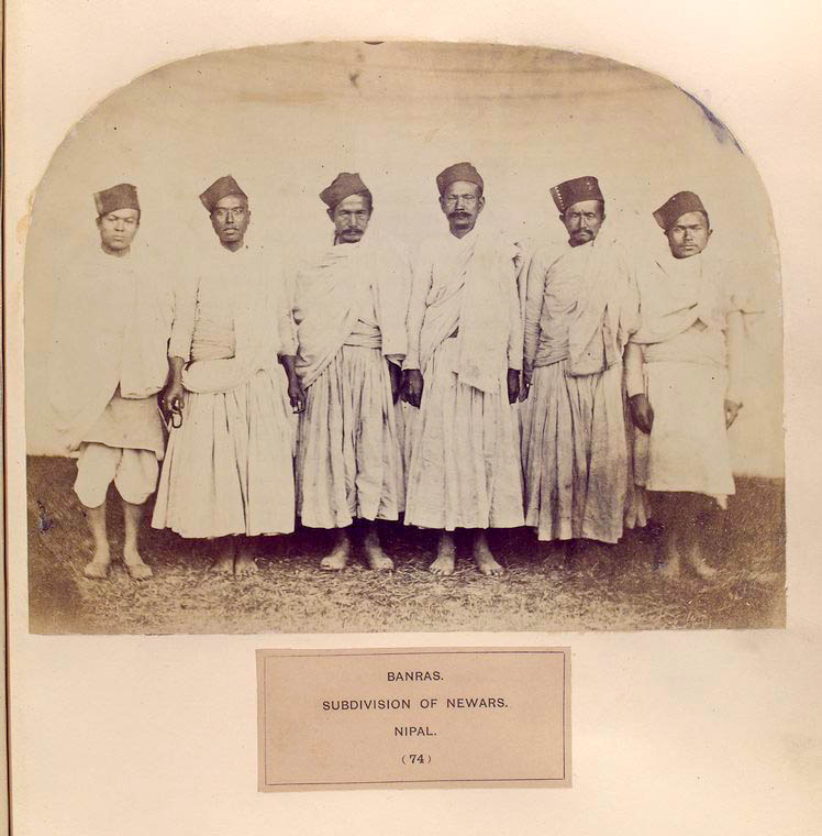 This image is from the book, The People of India, a series of photographic illustrations, with descriptive letterpress, of the races and tribes of Hindustan, originally prepared under the authority of the government of India, and reproduced. by J. Forbes Watson and John William Kaye between 1868 - 1875.